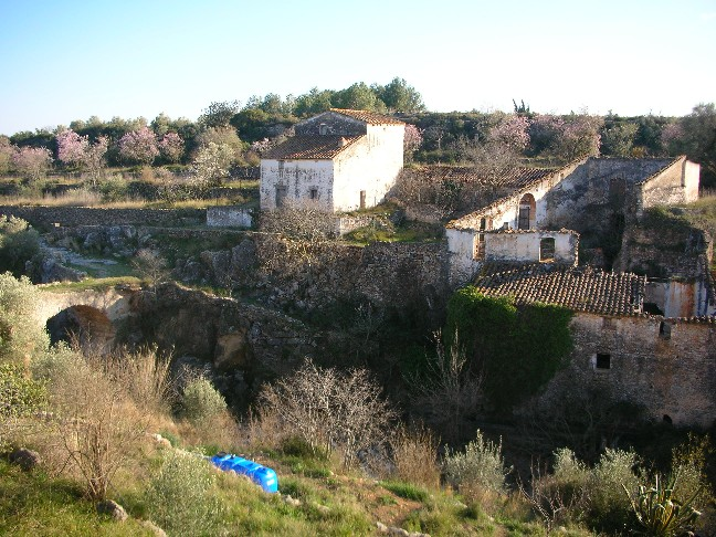 Ruins of the old mill known as molí de la Roca at a small, almost abandoned settlement in Ulldecona municipality.